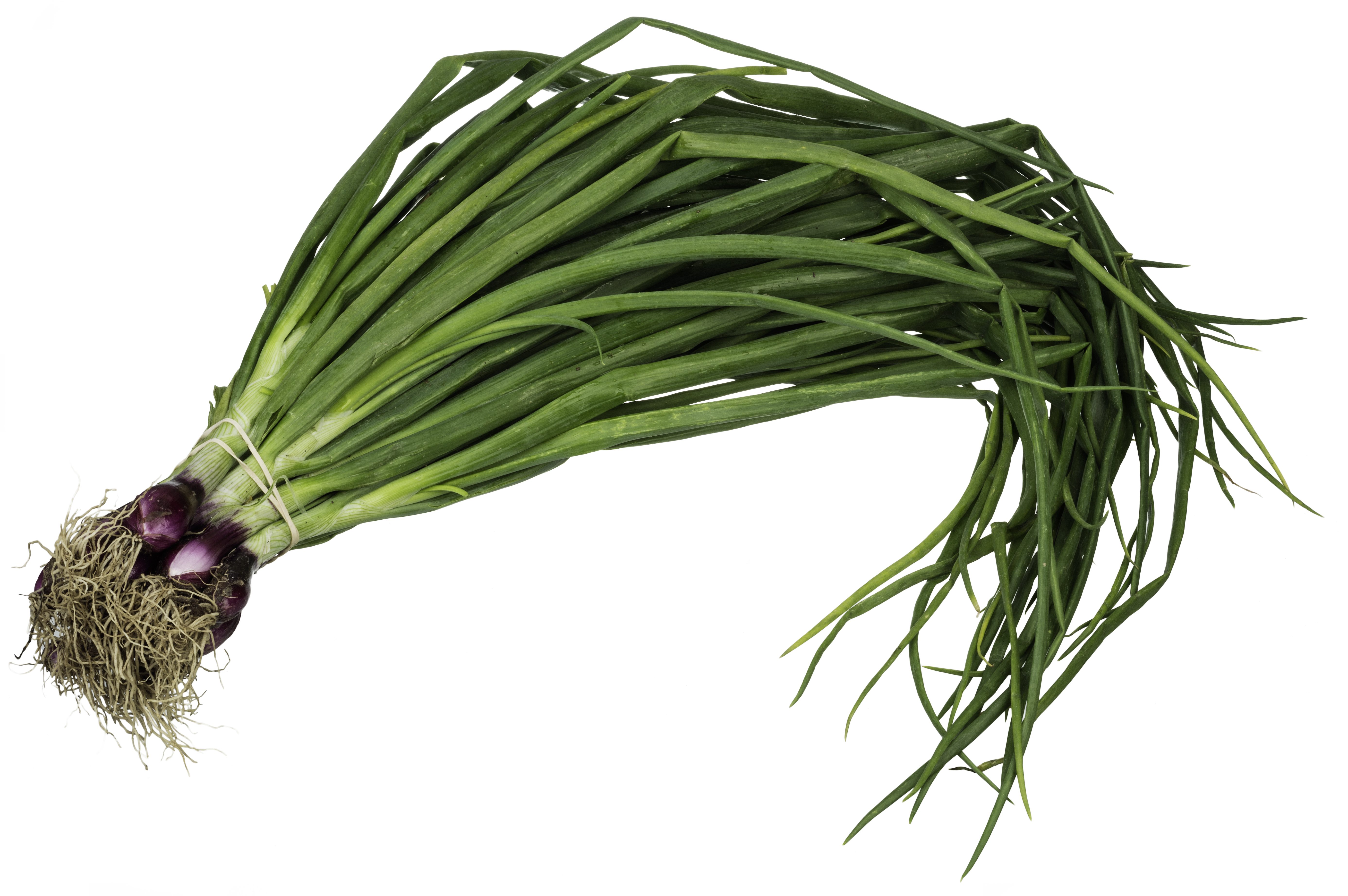 A bundle of red spring onions, from an organic food co-op.